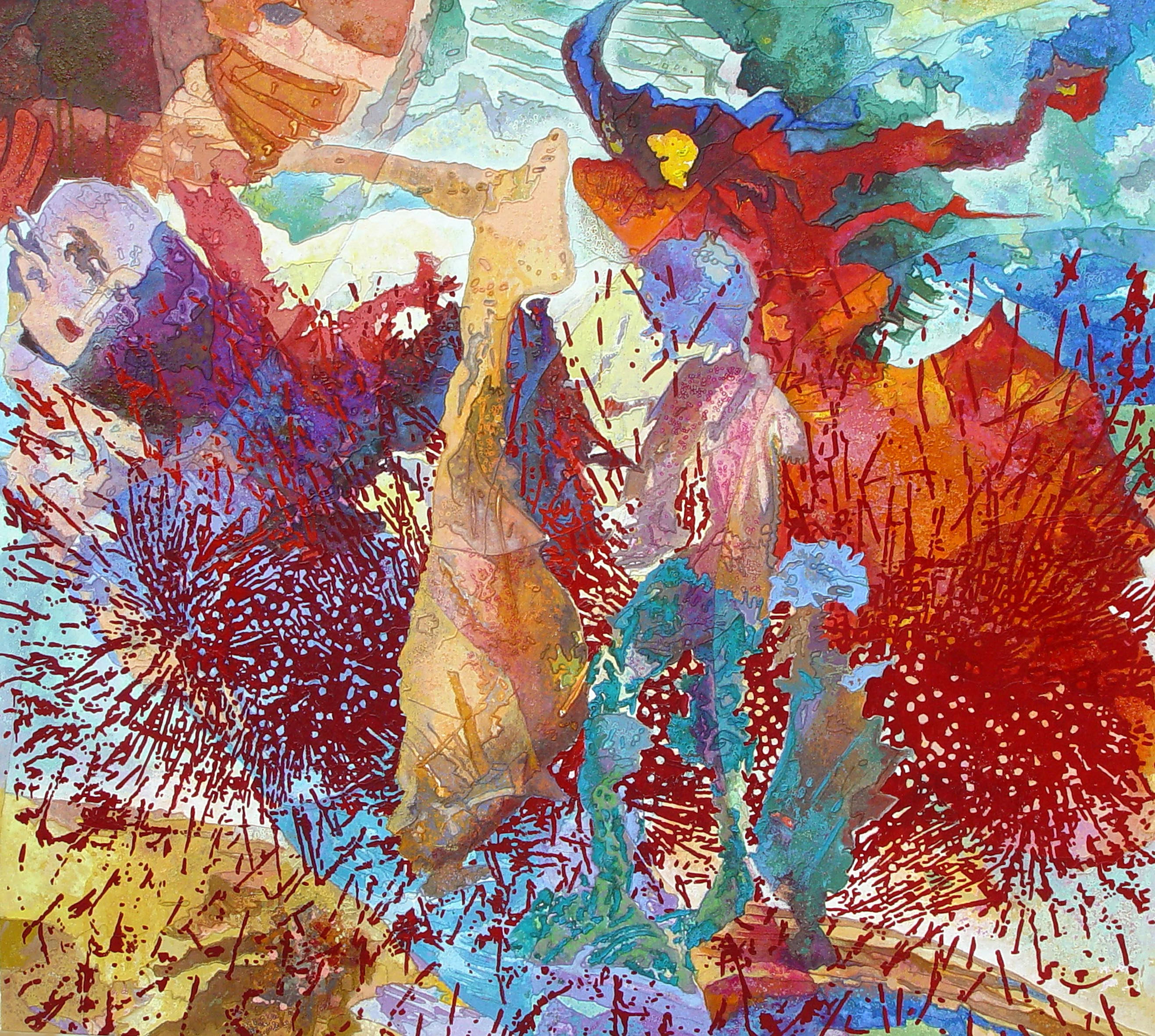 Erika Seywald, Garden of memento, Oil on canvas, 2012